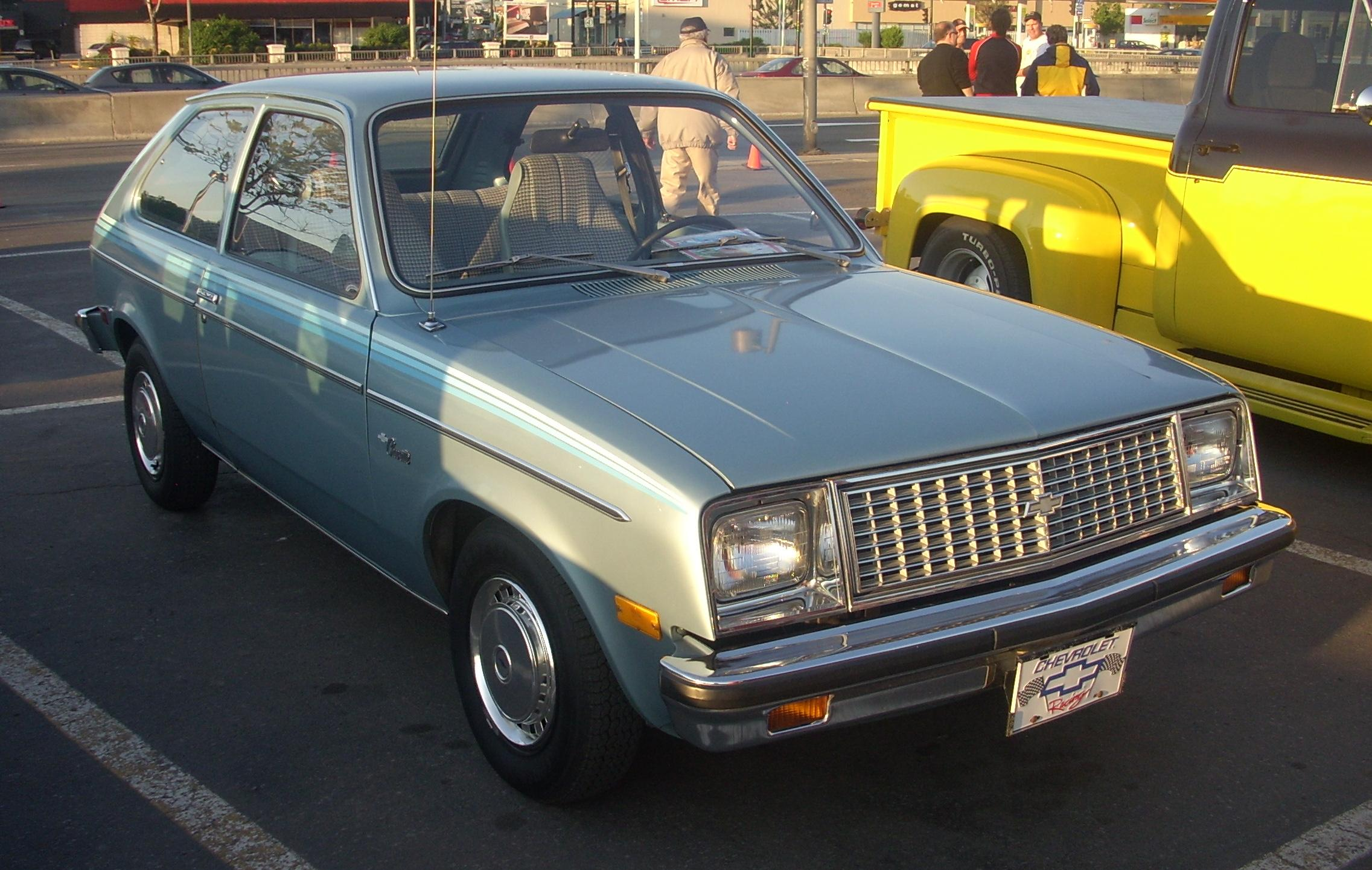 1979 Chevrolet Chevette photographed in Montreal, Quebec, Canada at Gibeau Orange Julep.